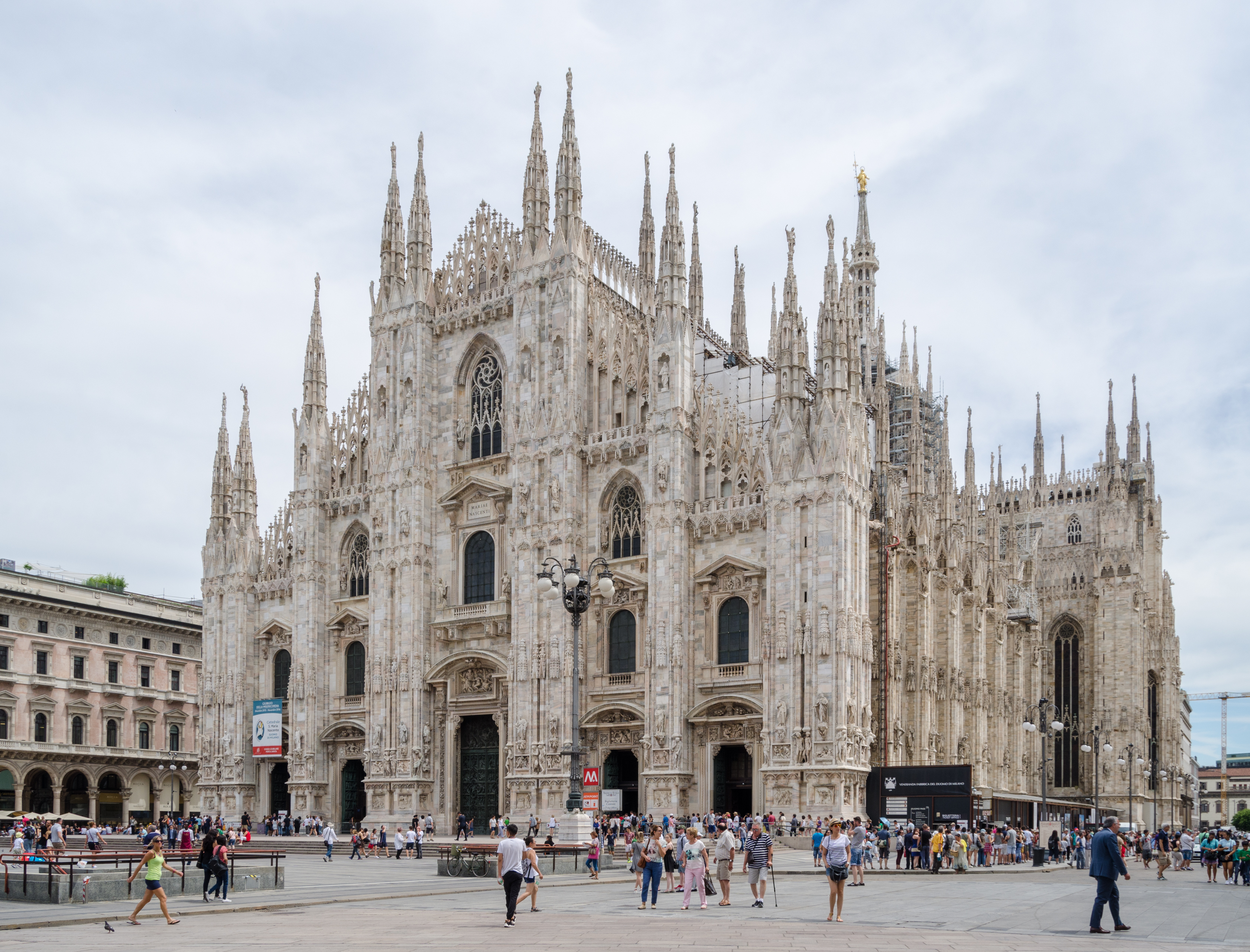 Milan (Lombardy, Italy) – Milan Cathedral – view from the southwest